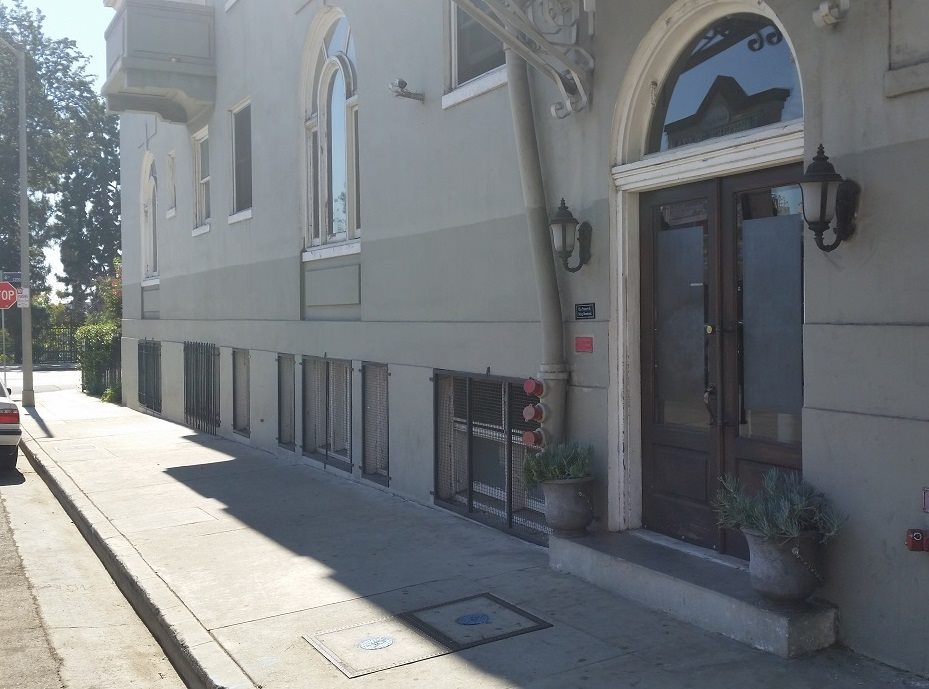 The Ansonia Apartments, Lake Street and W 6th Street, Historic Westlake District Of Los Angeles, Exterior Filming Location for Charles Chaplin's Silent Film "A Woman Of Paris" -1923